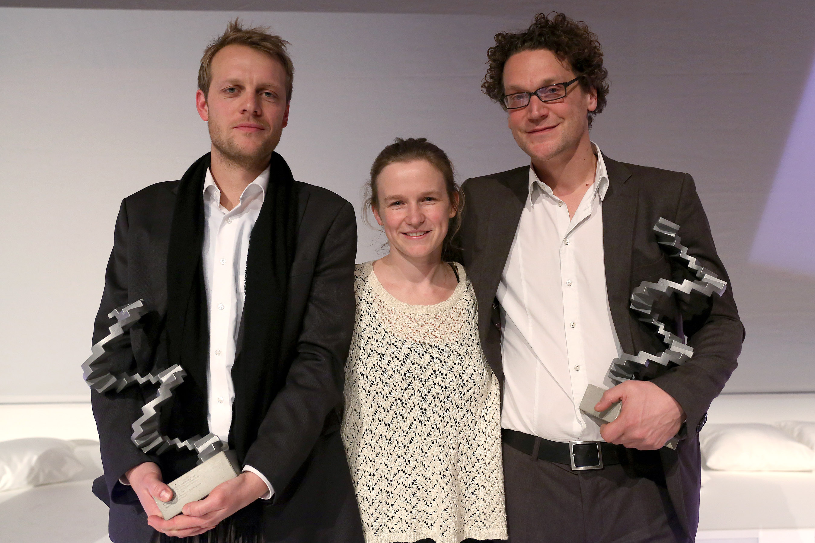 Director Paul-Julien Robert (l.), producer Sabine Moser and producer and editor Oliver Neumann (best documentary, best editing for "Meine keine Familie"), Austrian Film Awards 2014 (Grafenegg, Austria).